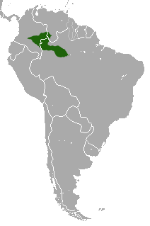 Black-headed Uakari (Cacajao melanocephalus) range